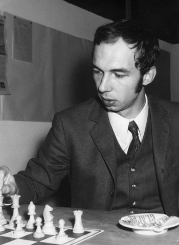 Lubomir Kavalek in Lugano in 1968